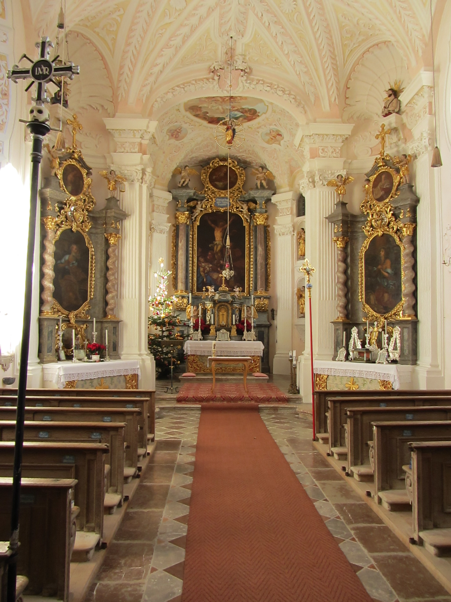 Kreuzpullach (Upper Bavaria) Holy Cross Church, Interiour